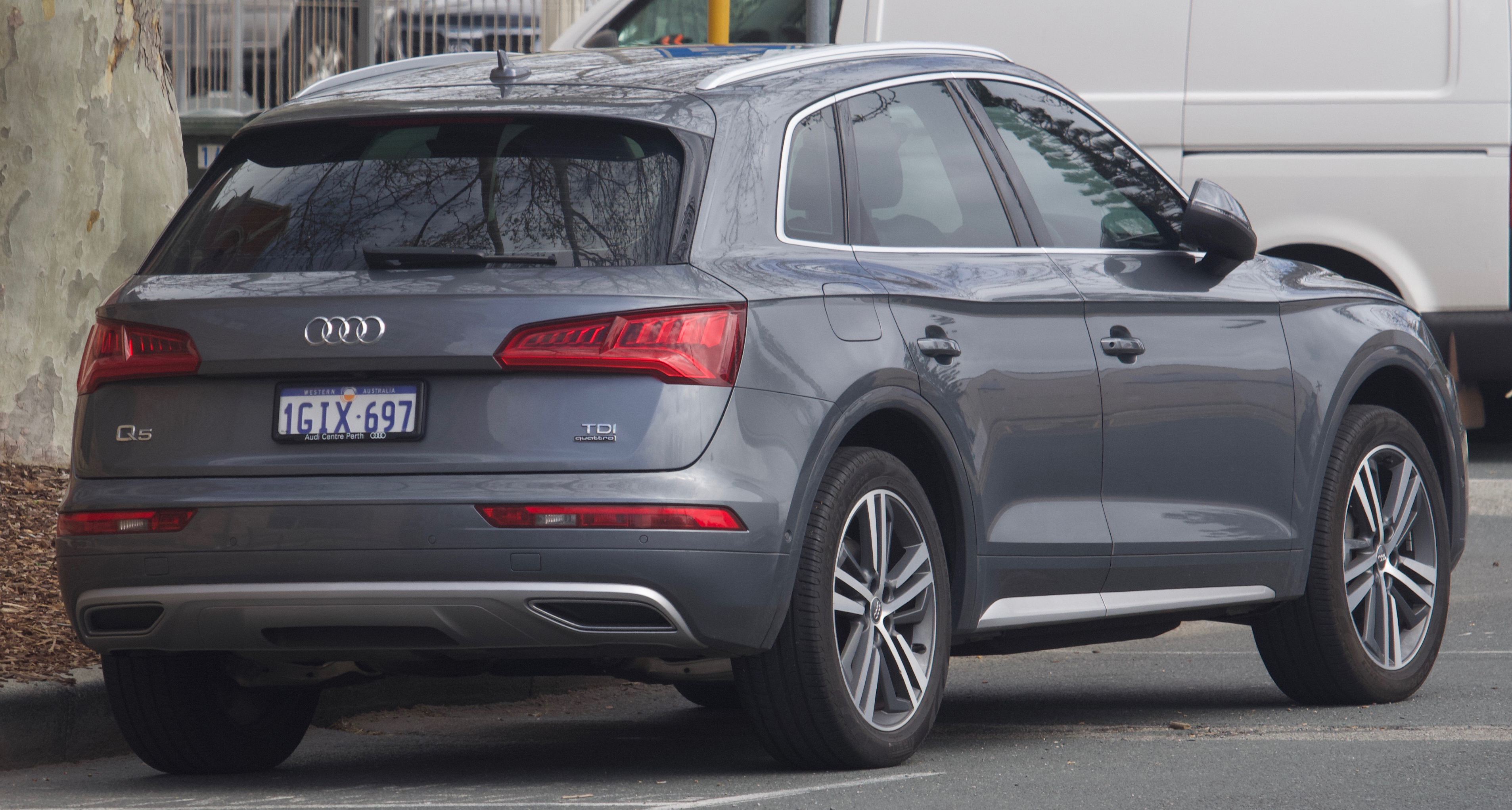 2017 Audi Q5 (FY) TDI Sport quattro ultra wagon. Photographed in Fremantle, Western Australia, Australia.